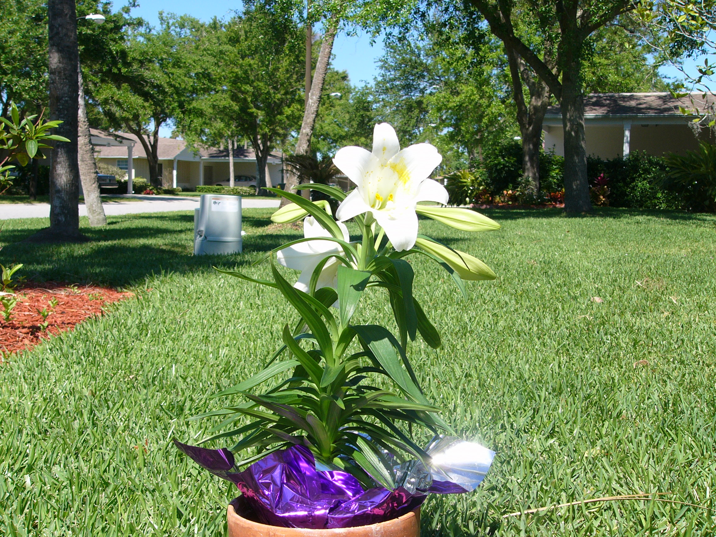 A lilly.